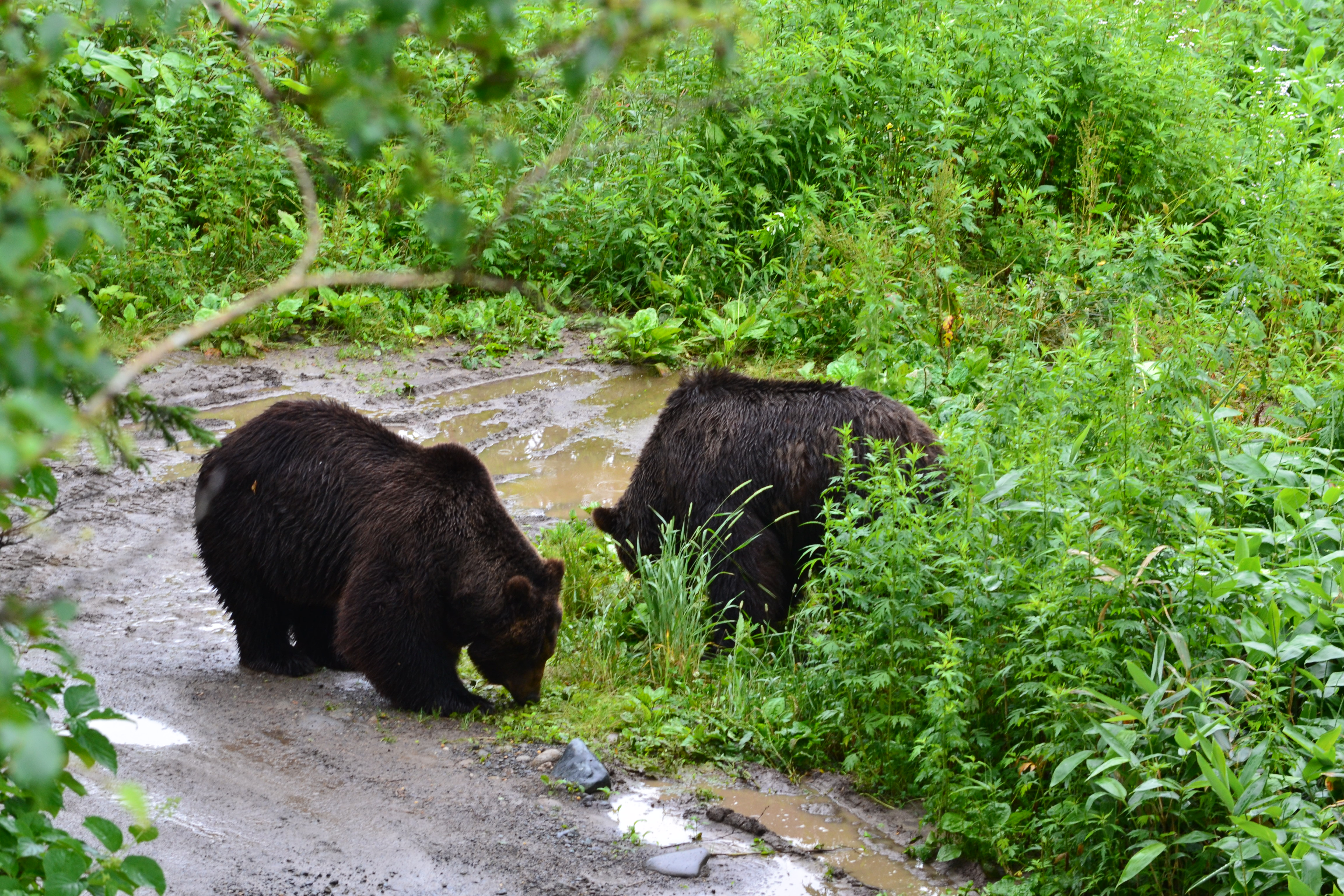 Sahoro Resort Bear Mountain